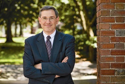 Peter Moores Dean Peter Tufano